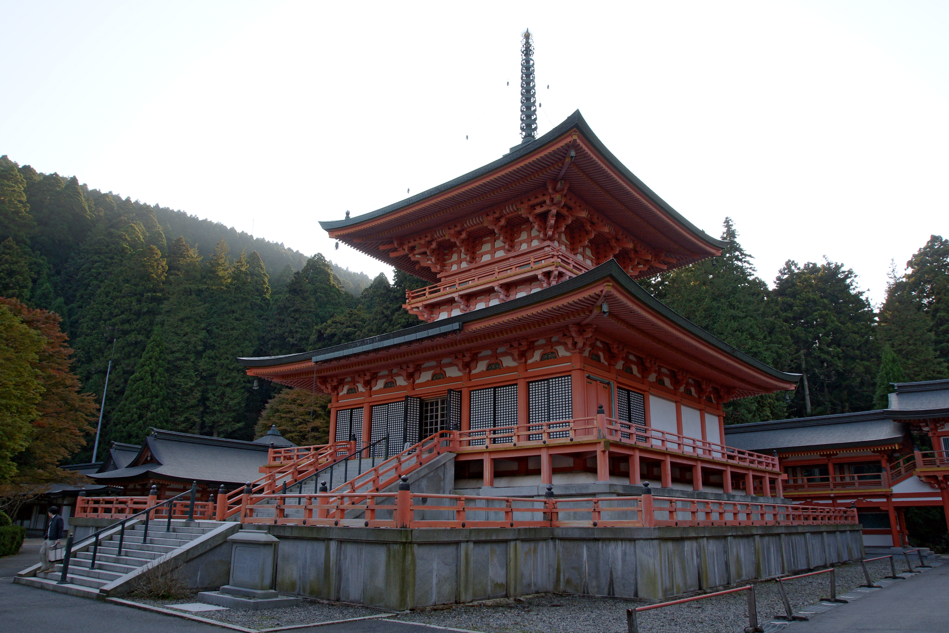 Toto of Enryakuji Buddhist temple, Otsu, Shiga prefecture, Japan